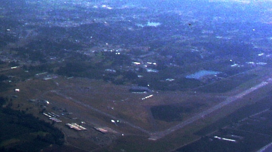 Aerial View of Abbotsford Airport, taken by Bill Kempthorne from C-GLJR, August 2005